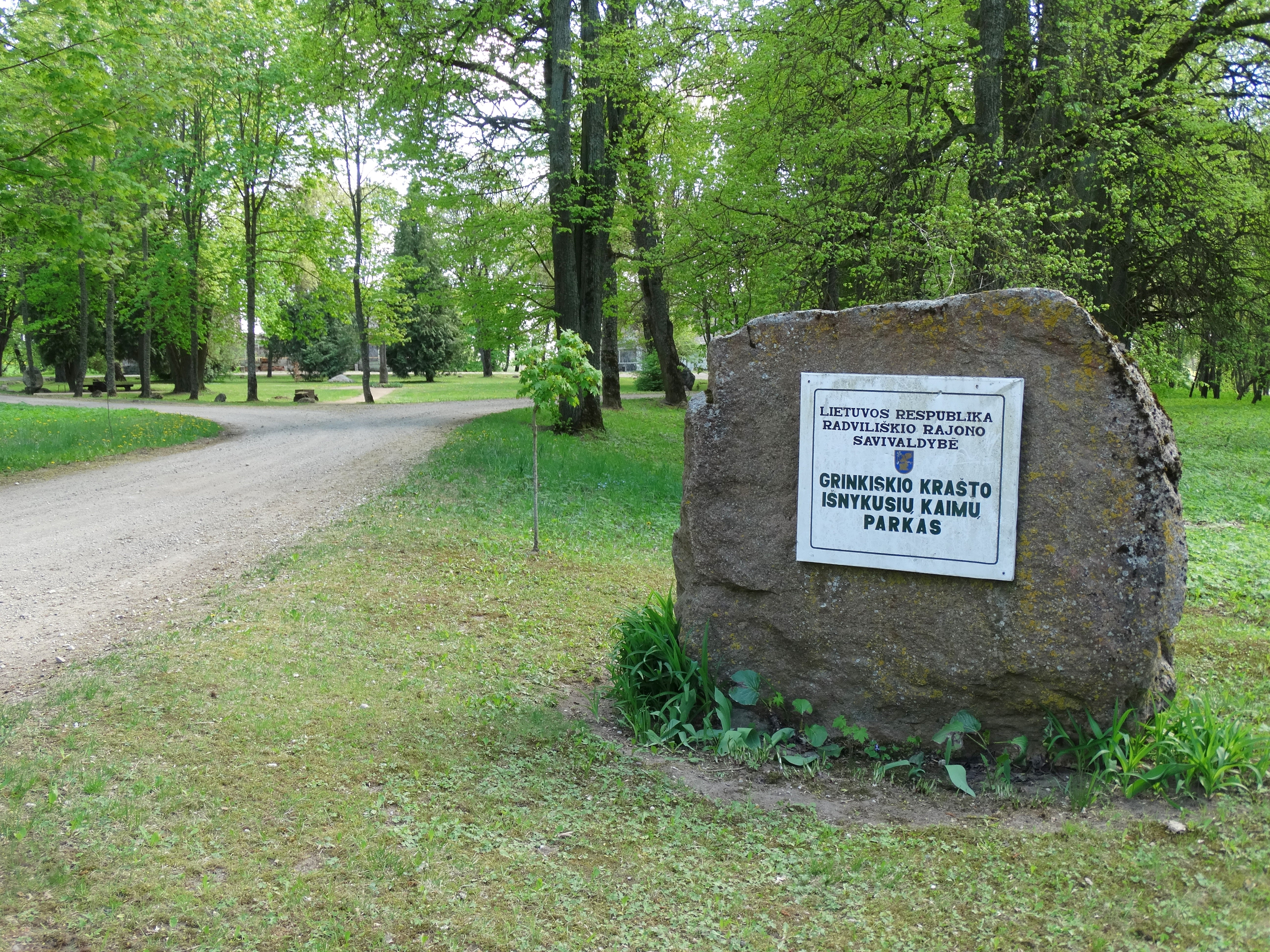 Memorial stone, Grinkiškis, Radviliškis district, Lithuania